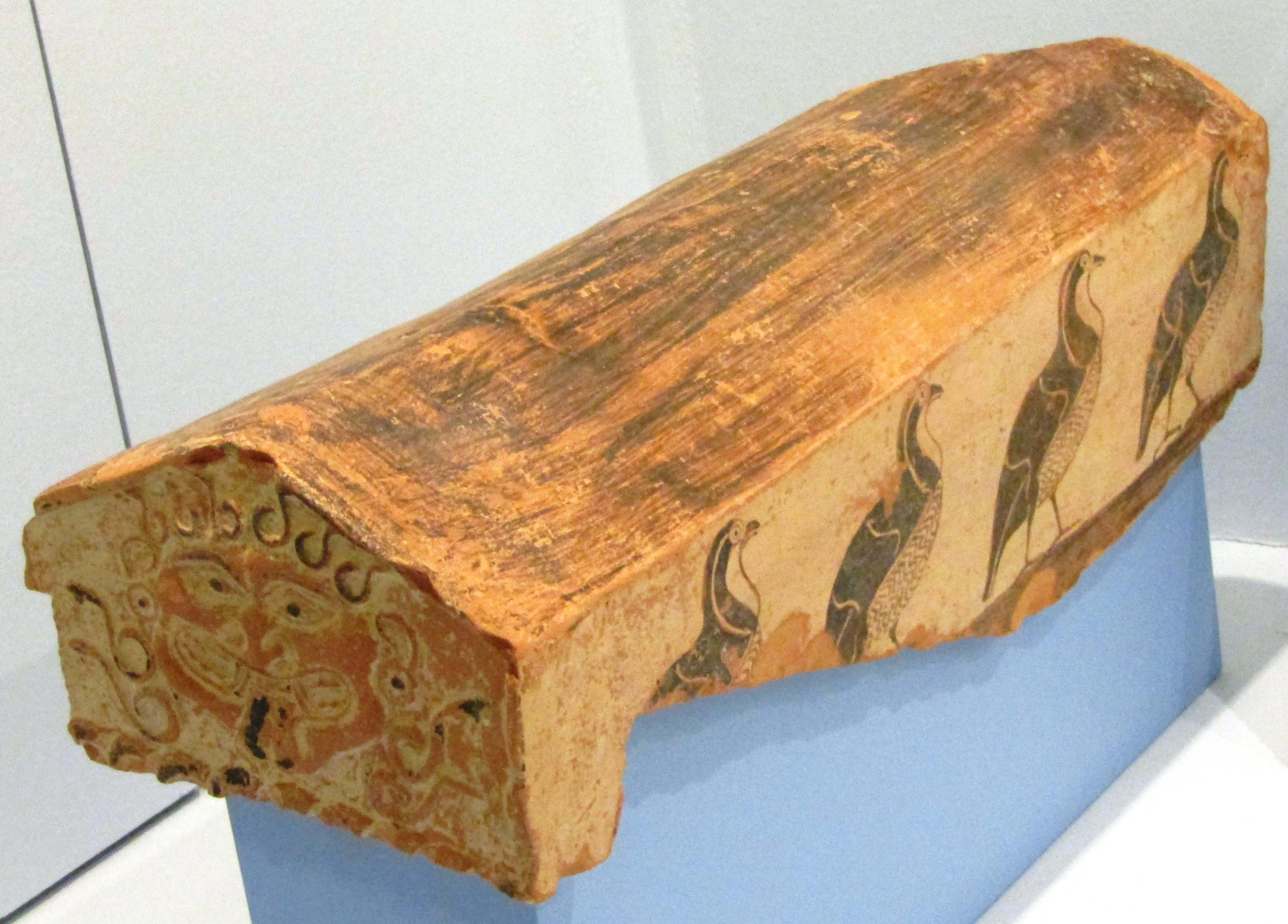 Archaic roof tile